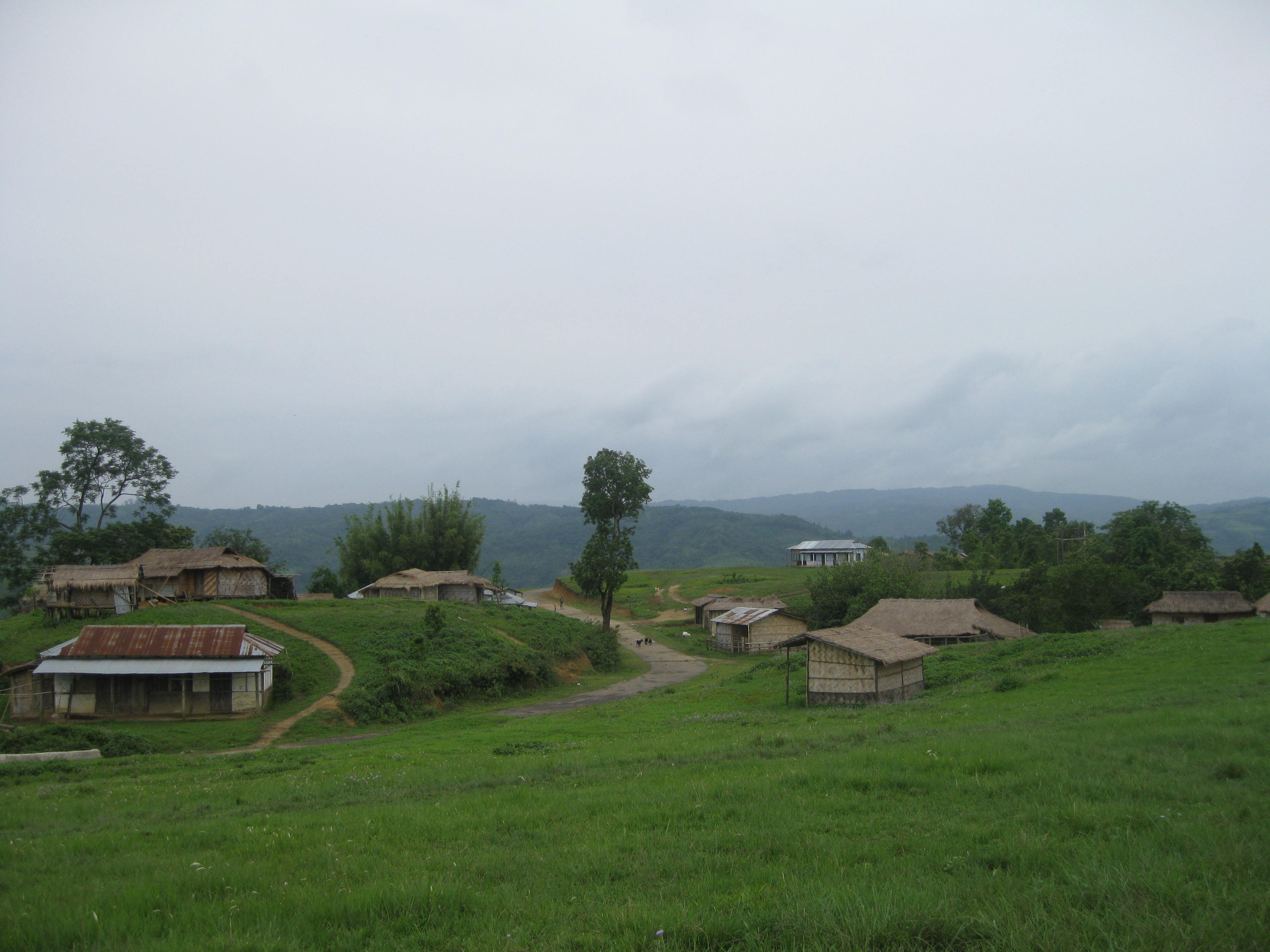 A scenic view of Khobak Village, Dima Hasao, Assam, India